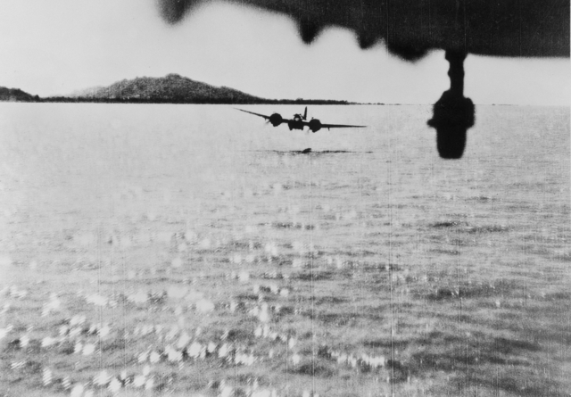 BURMA. 1942-11-10. LOW LEVEL ATTACKS BY RAF BLENHEIM SQUADRONS. AIRCRAFT FROM NO. 60 SQUADRON LEVELLING OUT FOR THE "RUN IN" TO MAKE A MAST-HEAD ATTACK ON A JAPANESE COASTER OFF AKYAB. A SPRINKLING OF RAAF MEN SERVED WITH THIS SQUADRON. (AIR MINISTRY). (PHOTOGRAPH REPRODUCED IN OFFICIAL HISTORY VOLUME: RAAF 1939-42, PAGE 466).